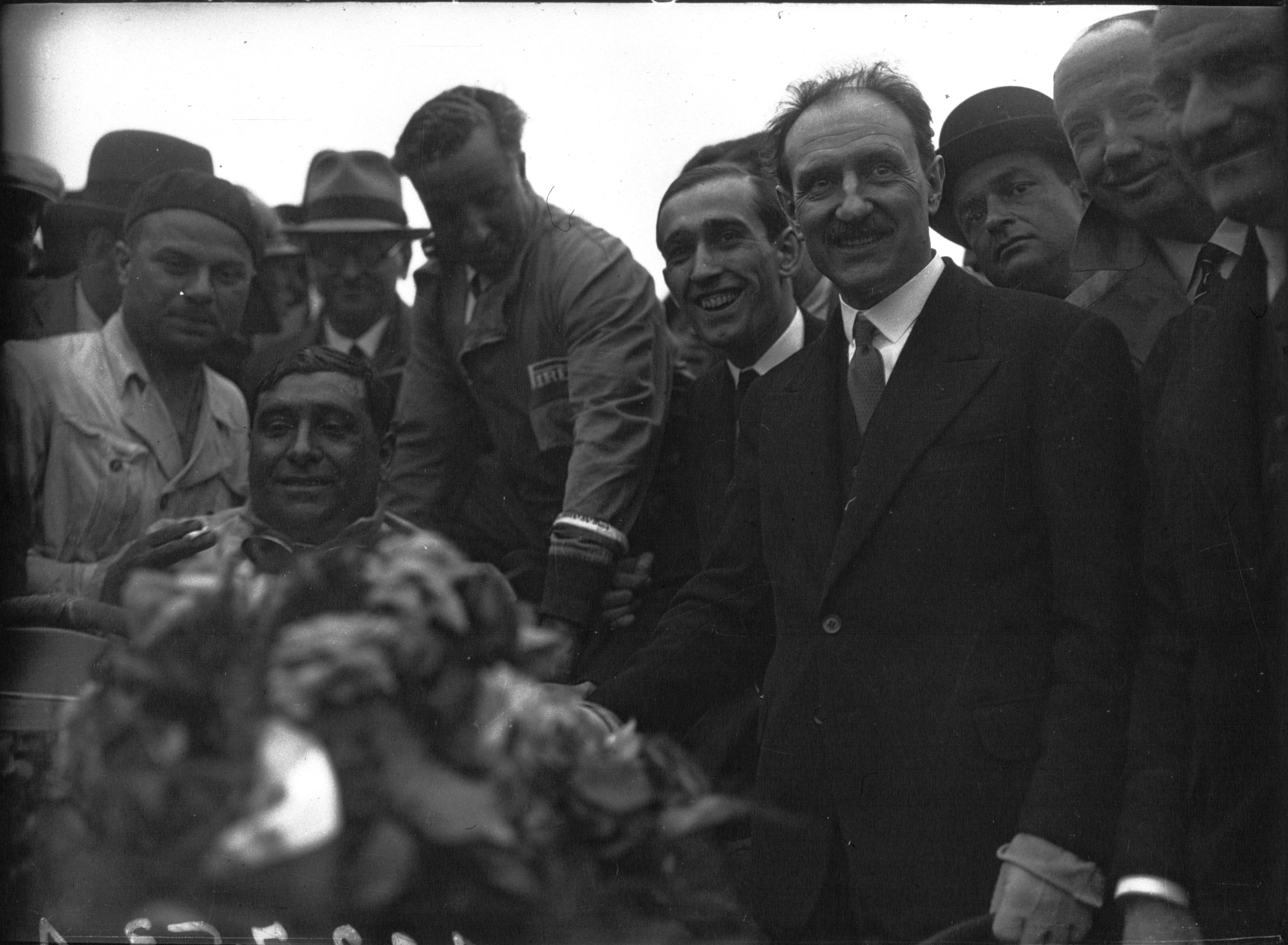 Giuseppe Campari after winning the 1933 French Grand Prix on June 11, 1933, in a Maserati 8C 2300, entered privately by himself.[1] On his left is Maserati mechanic Luigi Parenti.